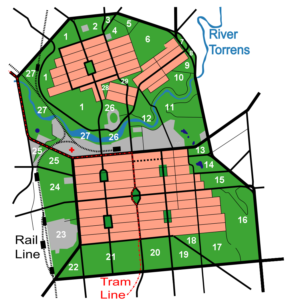 File:Streetmap_of_Adelaide_and_North_Adelaide.svg with the Park numbers added